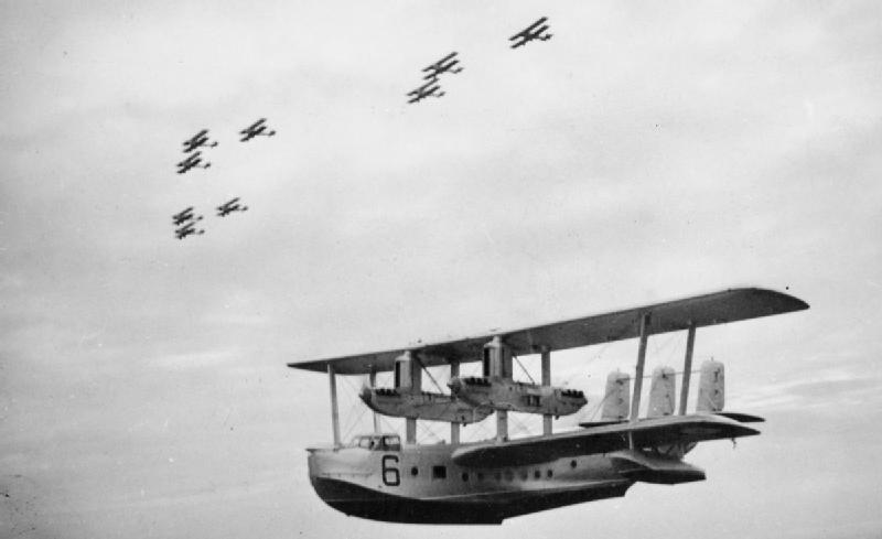 Title: SERVICE OF LAC ROY MAGER WITH NO 100 (TORPEDO BOMBER) SQUADRON ROYAL AIR FORCE AT SINGAPORE, 1936 - 1939. Collection No.: 9102-03 Description: Short Singapore Mark III flying boat of No. 205 (FB) Squadron, in flight below three 'vic' formations of Vickers Vildebeest torpedo bombers of No. 100 (TB) Squadron. Period: Interwar Date: Circa January 1937 Access: Unrestricted